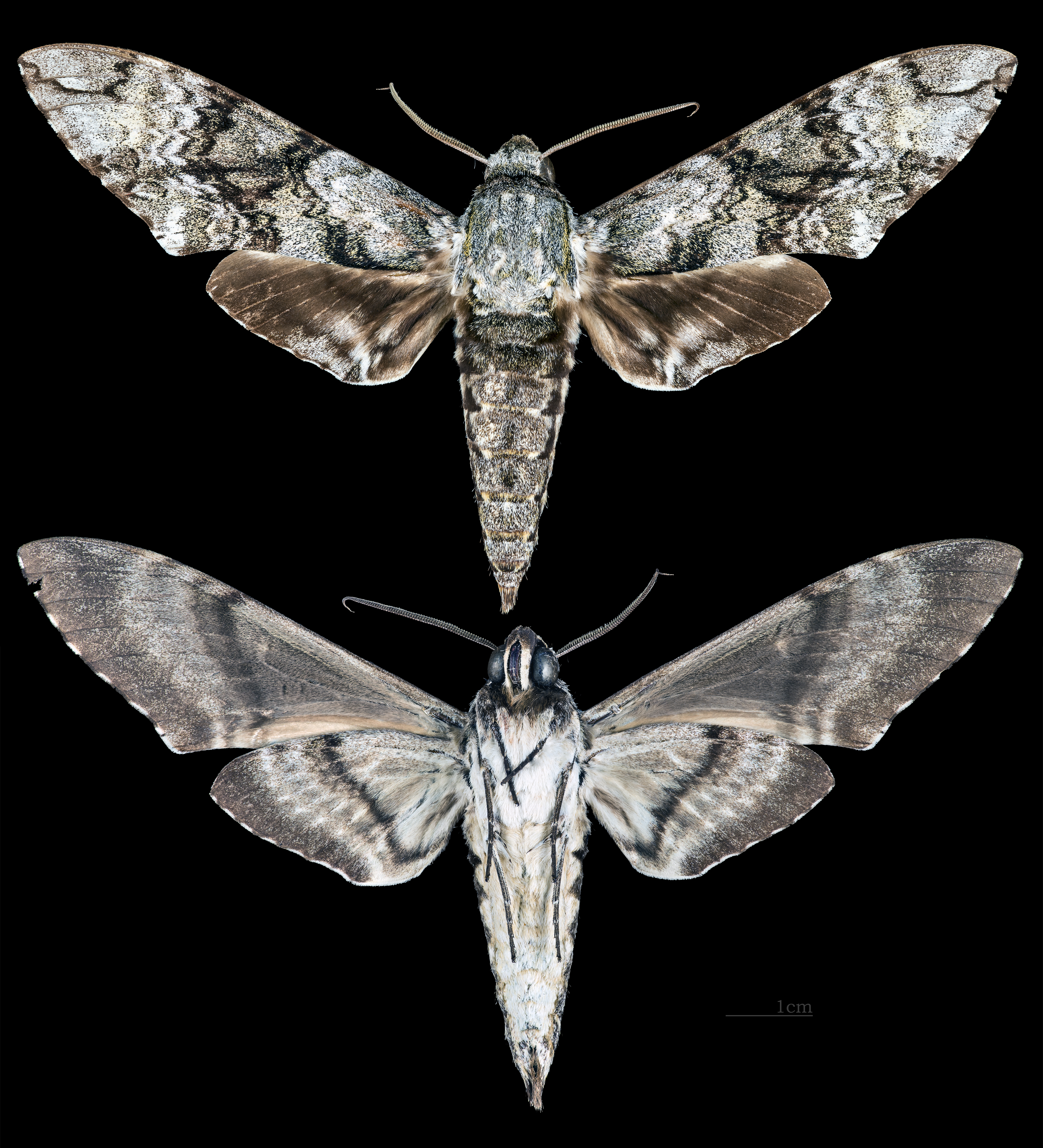 Manduca huascara - Two views of same specimen Collection of the Mathematician Laurent Schwartz